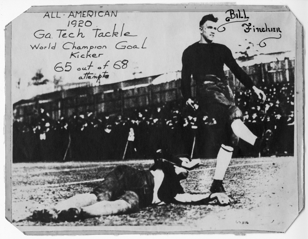 Bill Fincher kicking a field goal